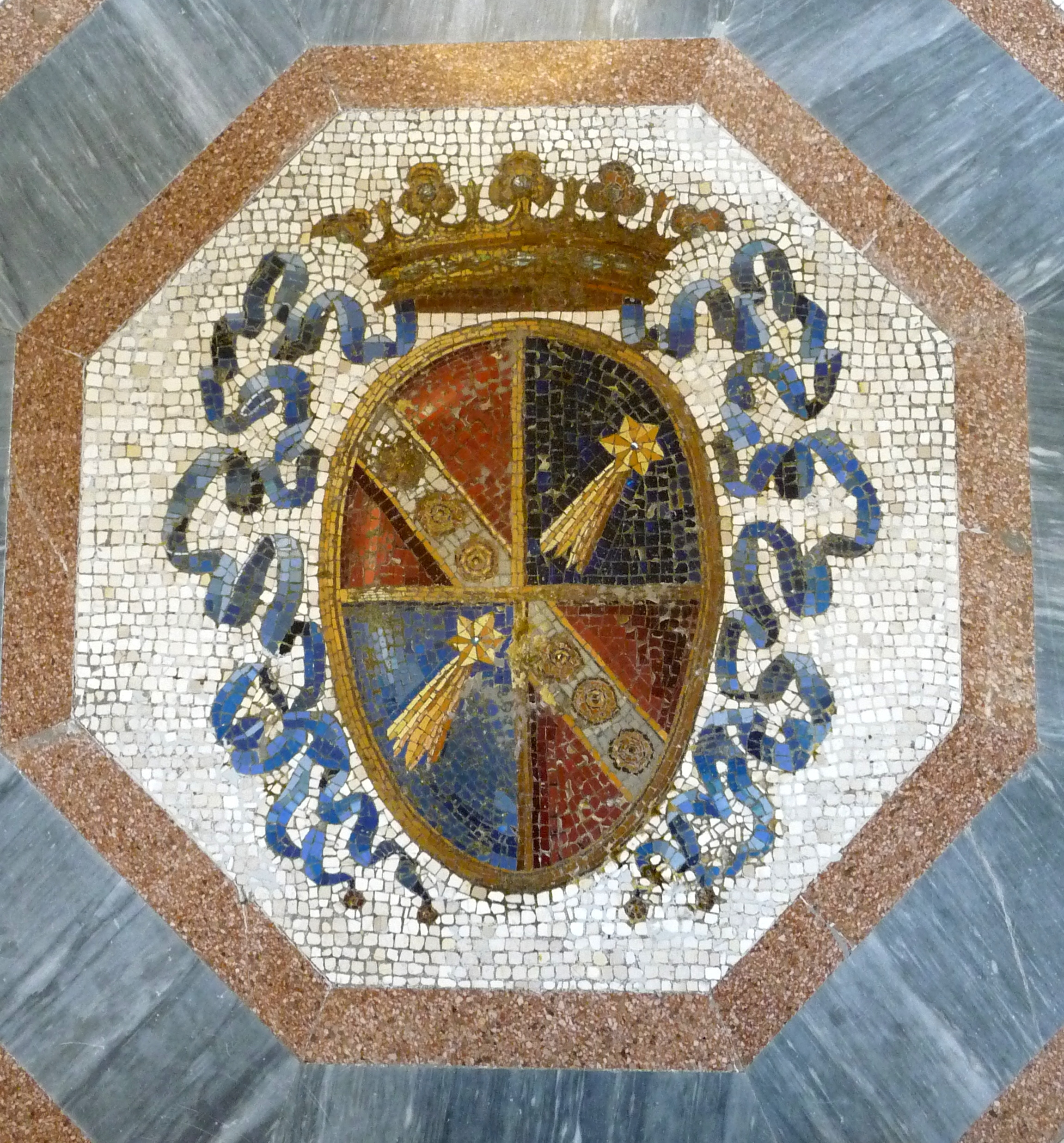 Coat of arms of House of Torlonia, Villa Torlonia in Rome